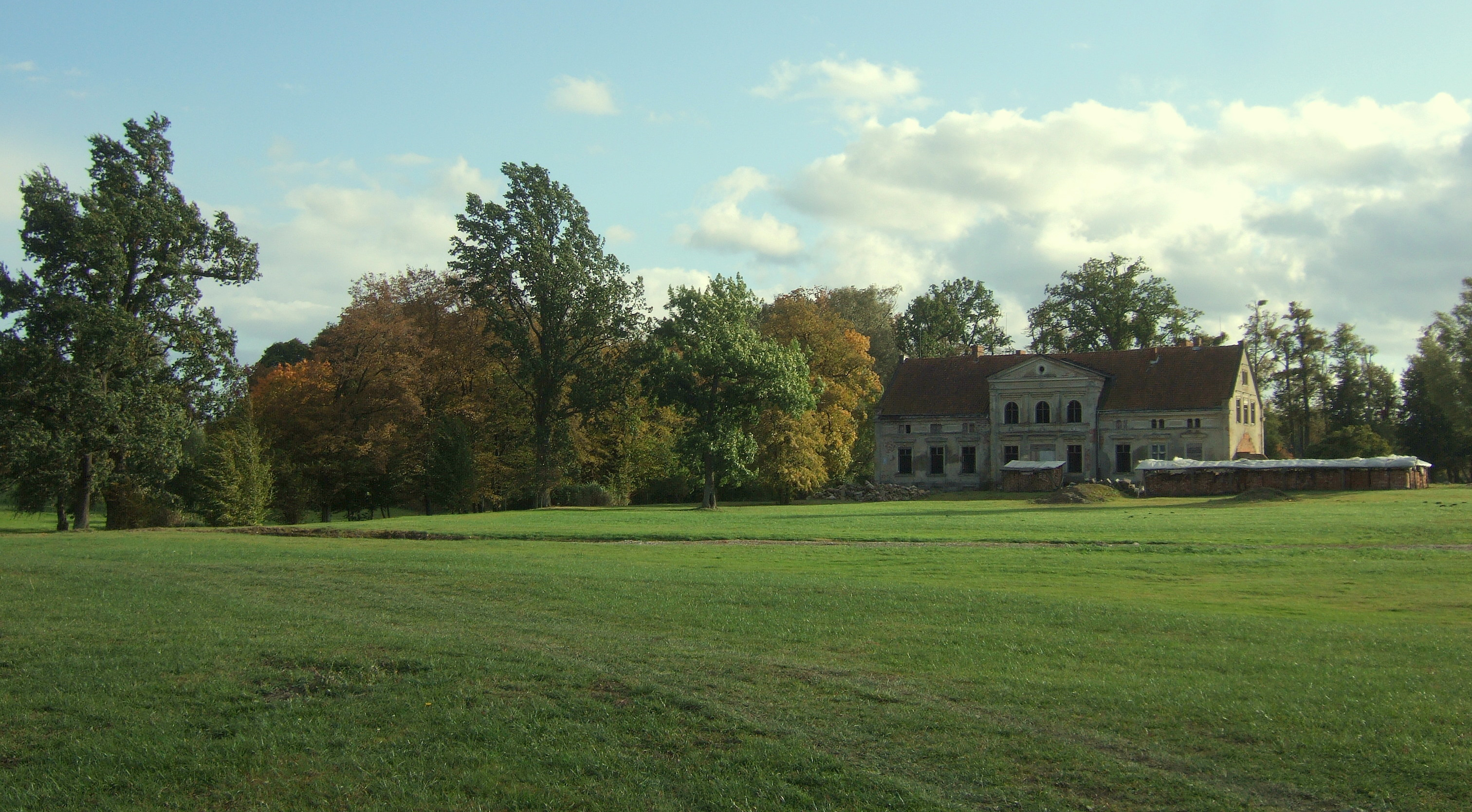 Manor- house in Glitajny from XIX, village in Warmian-Masurian Voivodeship in Poland, overview.